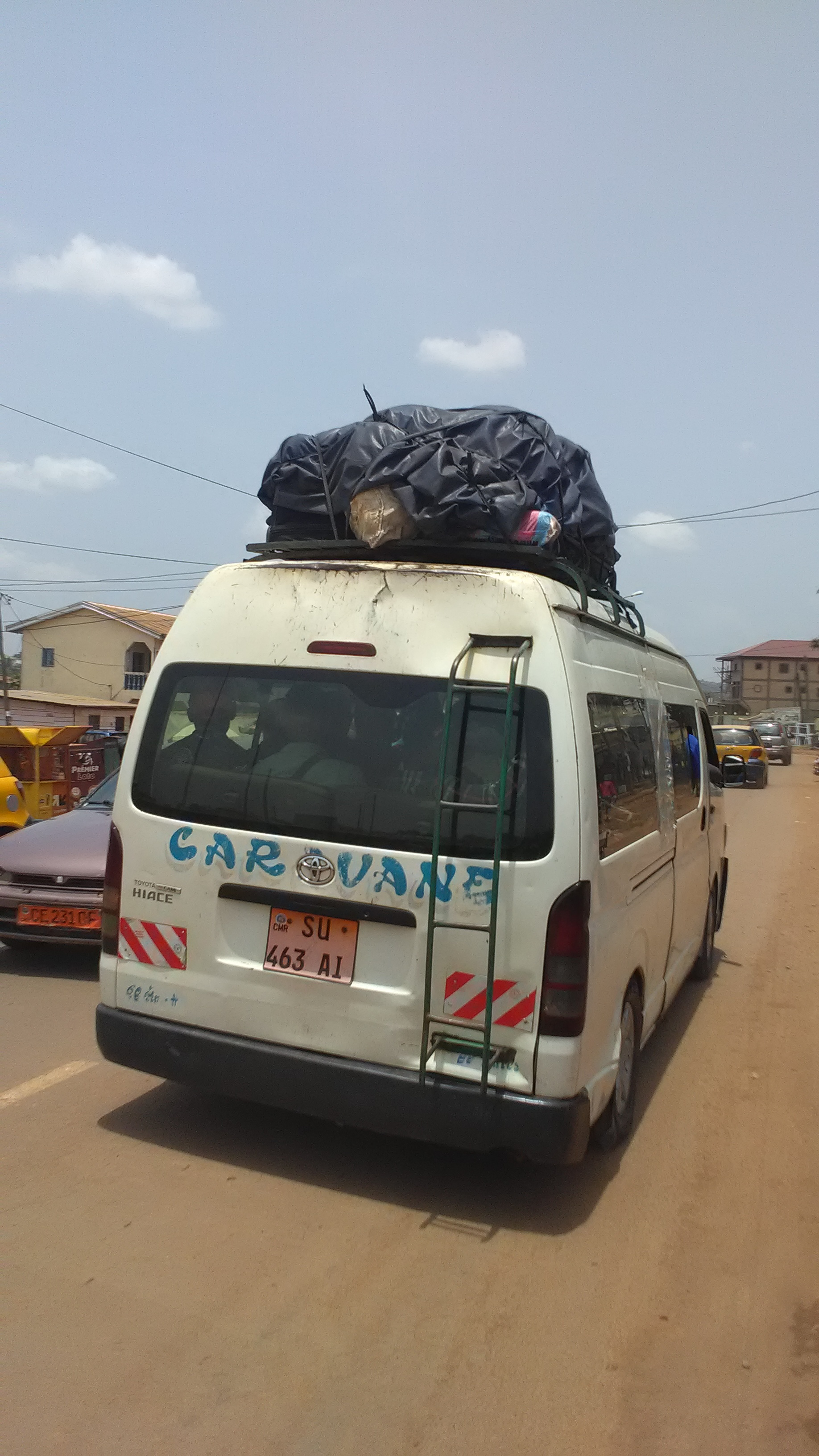 This is an image with the theme "Africa on the Move or Transport" from: Cameroon